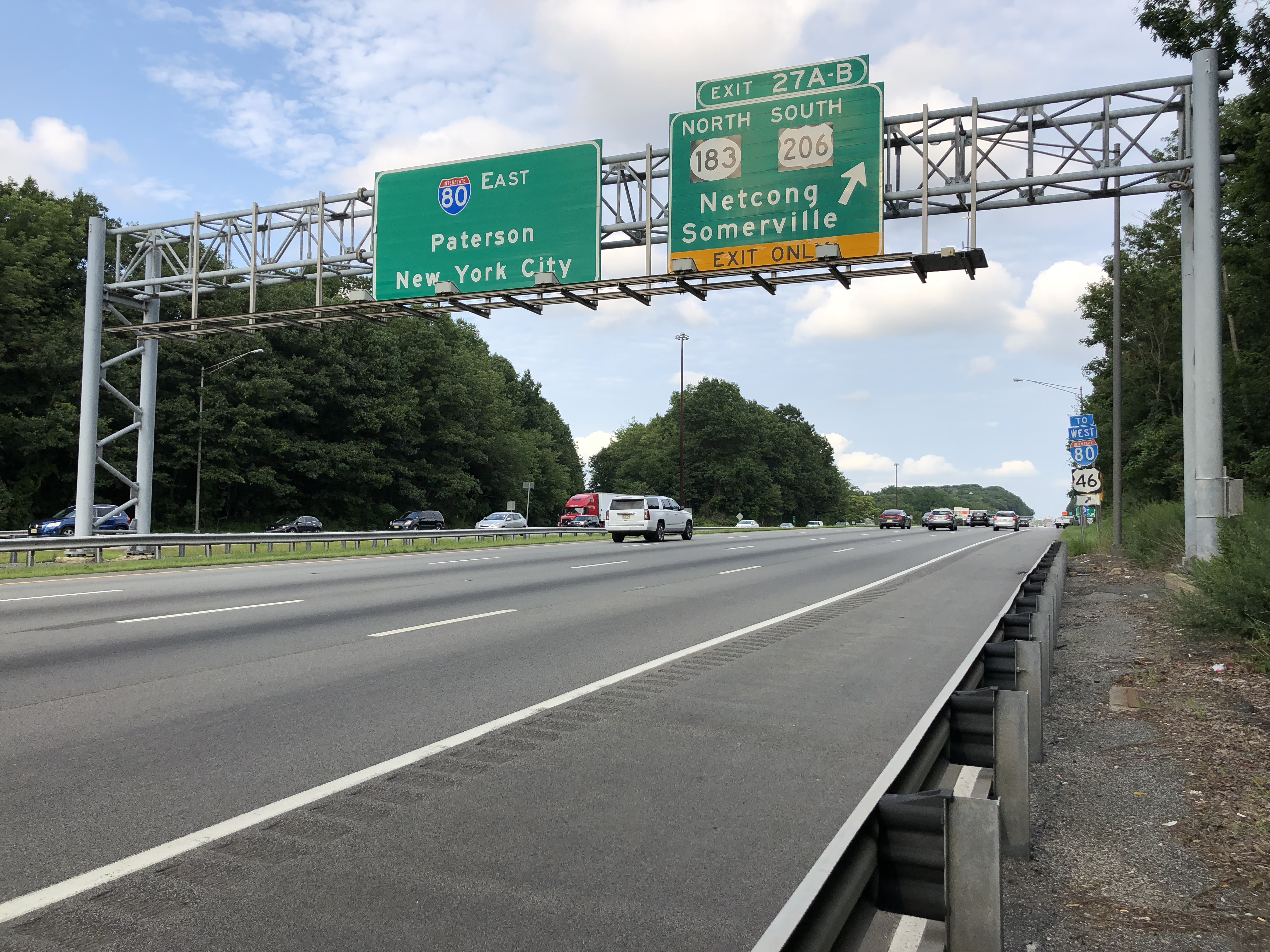 View east along Interstate 80 and south along U.S. Route 206 at Exit 27A-B (NORTH New Jersey State Route 183, SOUTH U.S. Route 206, Netcong, Somerville) in Mount Olive Township, Morris County, New Jersey